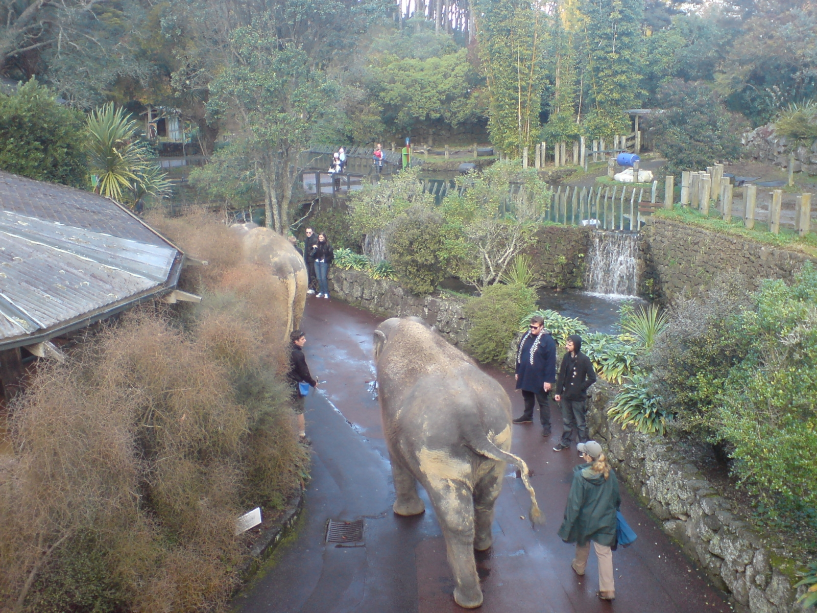 Elephants on a walkabout at Auckland Zoo in Auckland City, New Zealand.